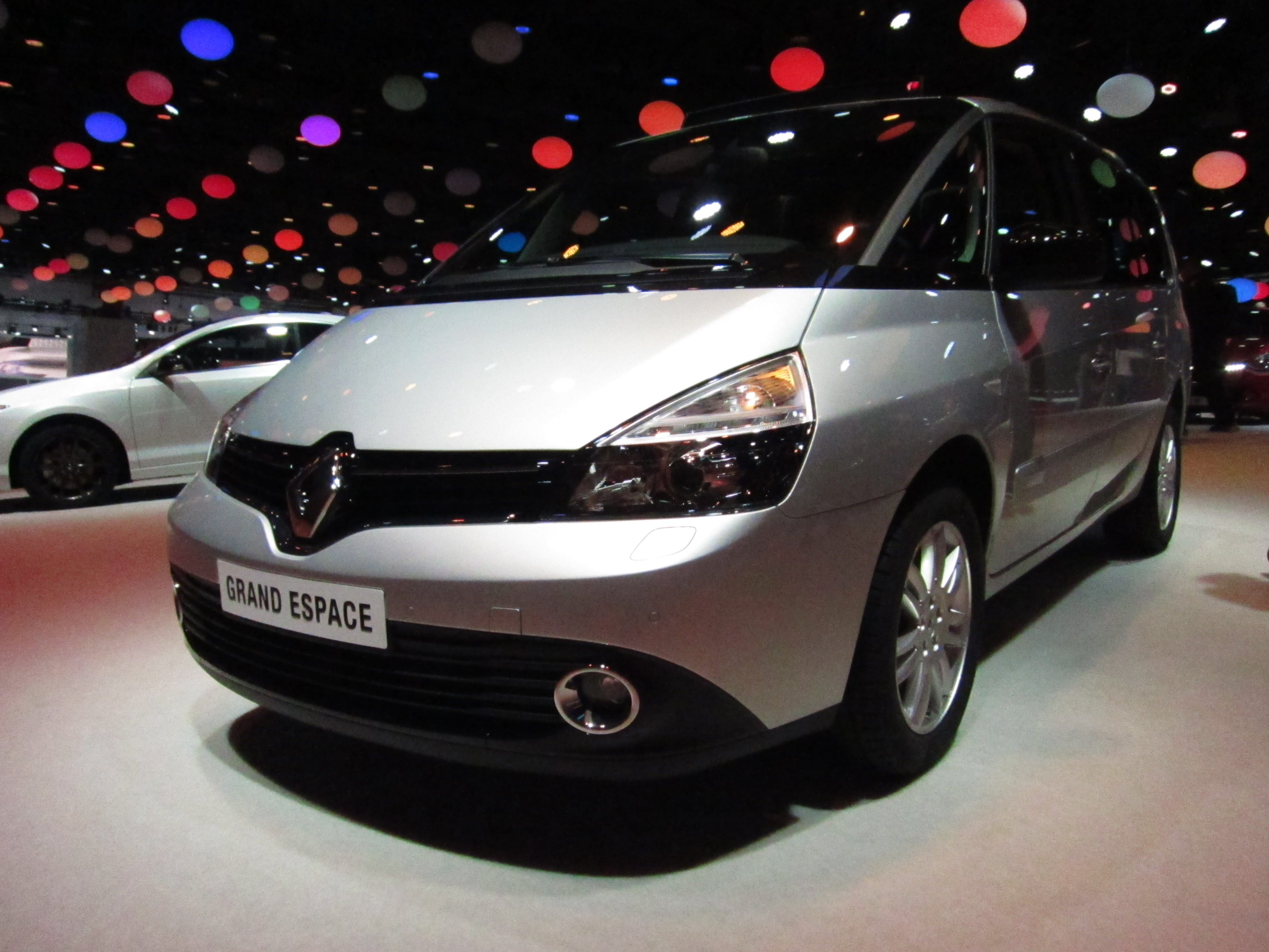 Renault Espace facelift at Mondial de l'Automobile Paris 2012